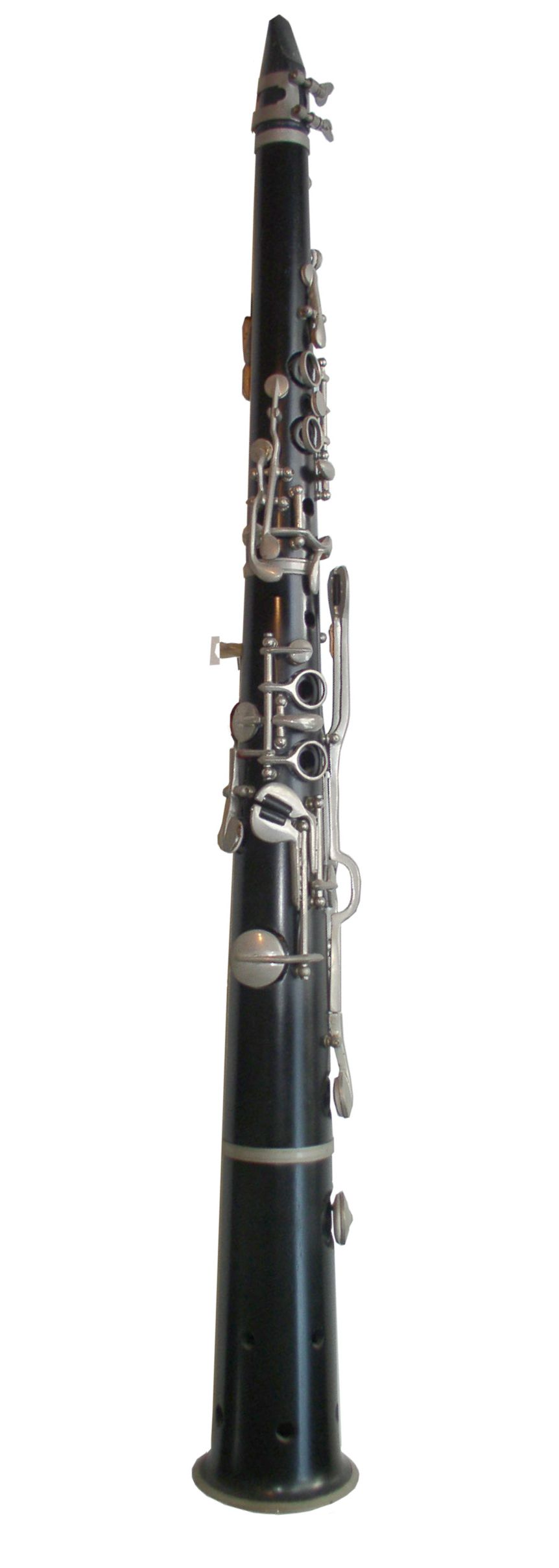 Modern tárogató, Hungarian single-reeded woodwind instrument